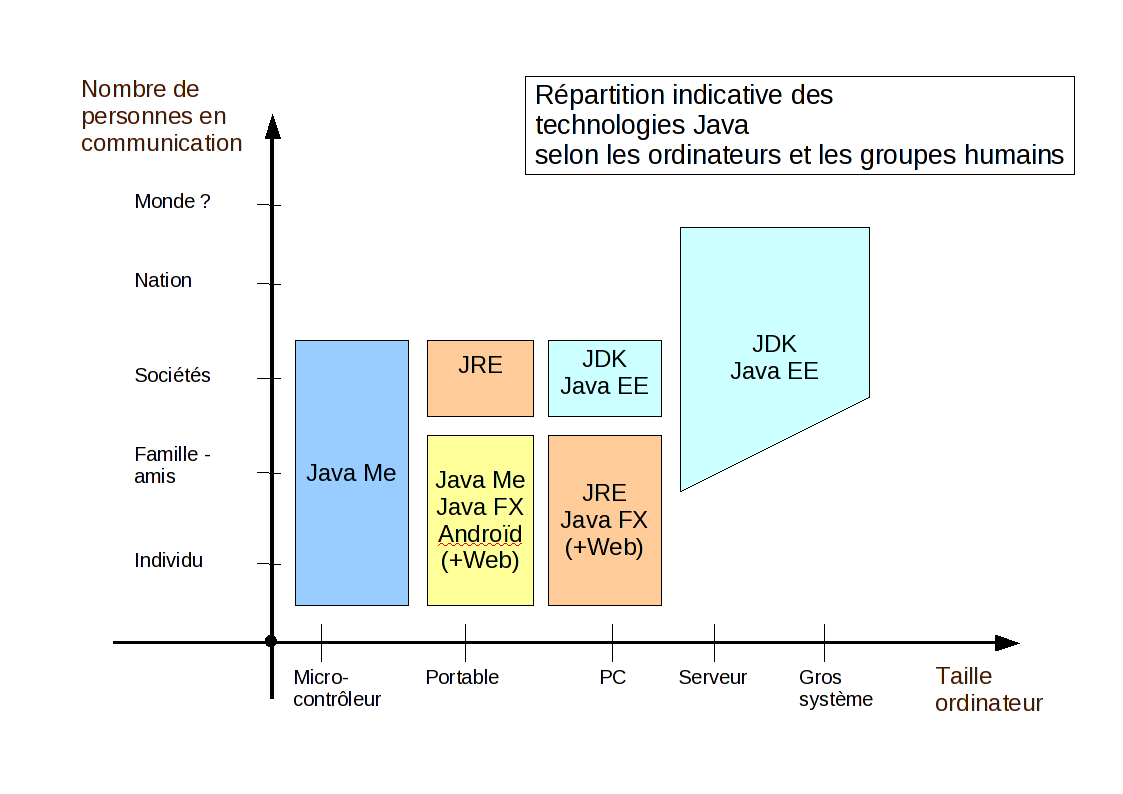 The java technology with computers and human